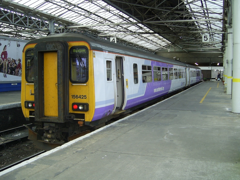 Northern Class 156 unit 156425 stands at Southport railway station. (C) myself, James Rawlinson.